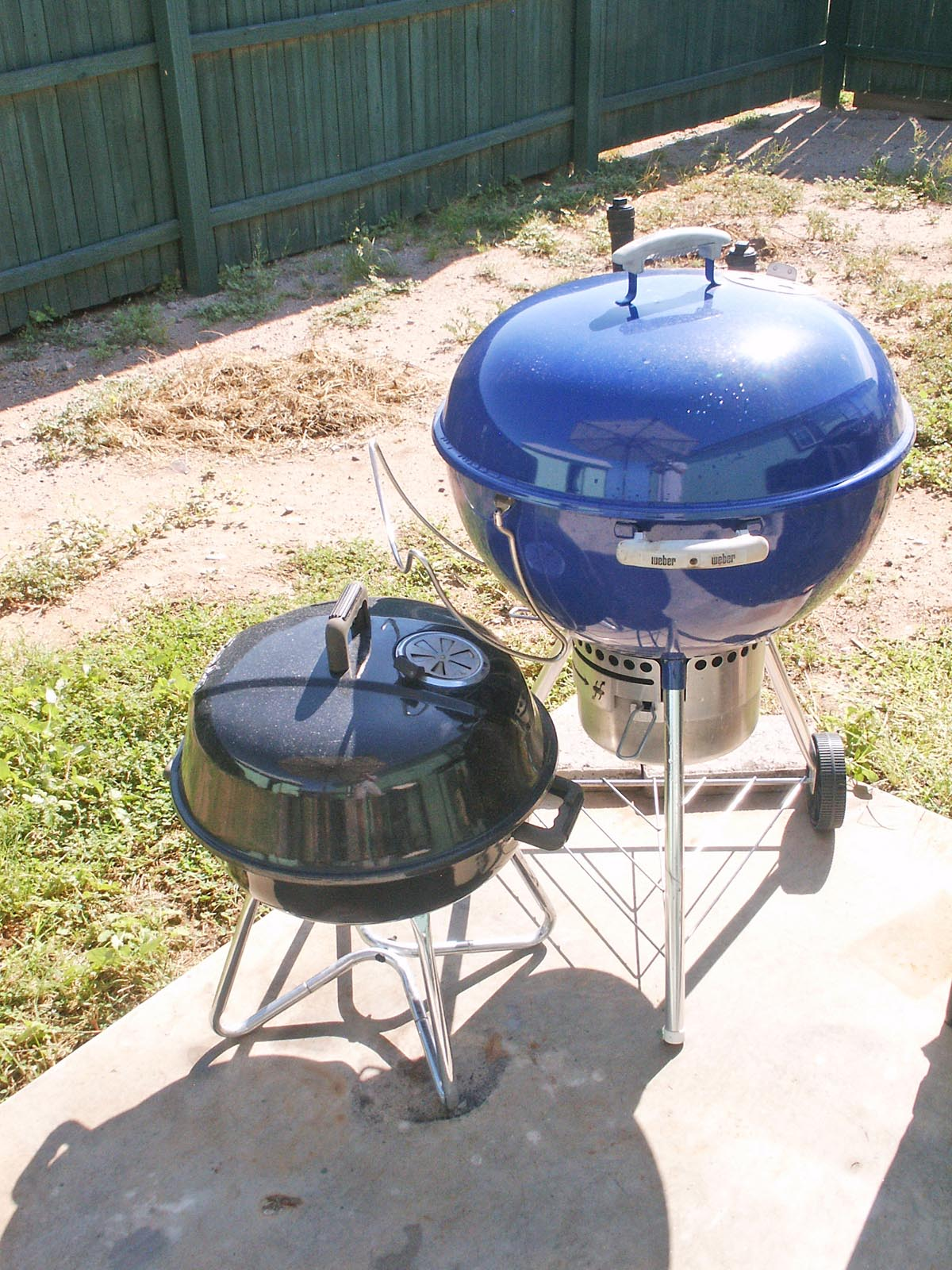 Two charcoal kettle grills, one being an 18" table top model and the other a freestanding 22.5" model.